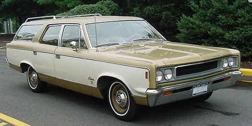 1968 Rebel 770 station wagon by American Motors (AMC), finished in "Scarab Gold" metallic (code - P52A) with optional (two-tone painted) side panels in "Frost White" (code - P72A).